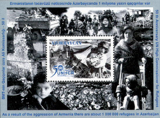 Souvenir sheet of Azerbaijan, 2001. 50th anniversary of the UN High Commissioner for Refugees. The refugees under the Armenia aggression and the tent small town are pictured on the souvenir sheet.